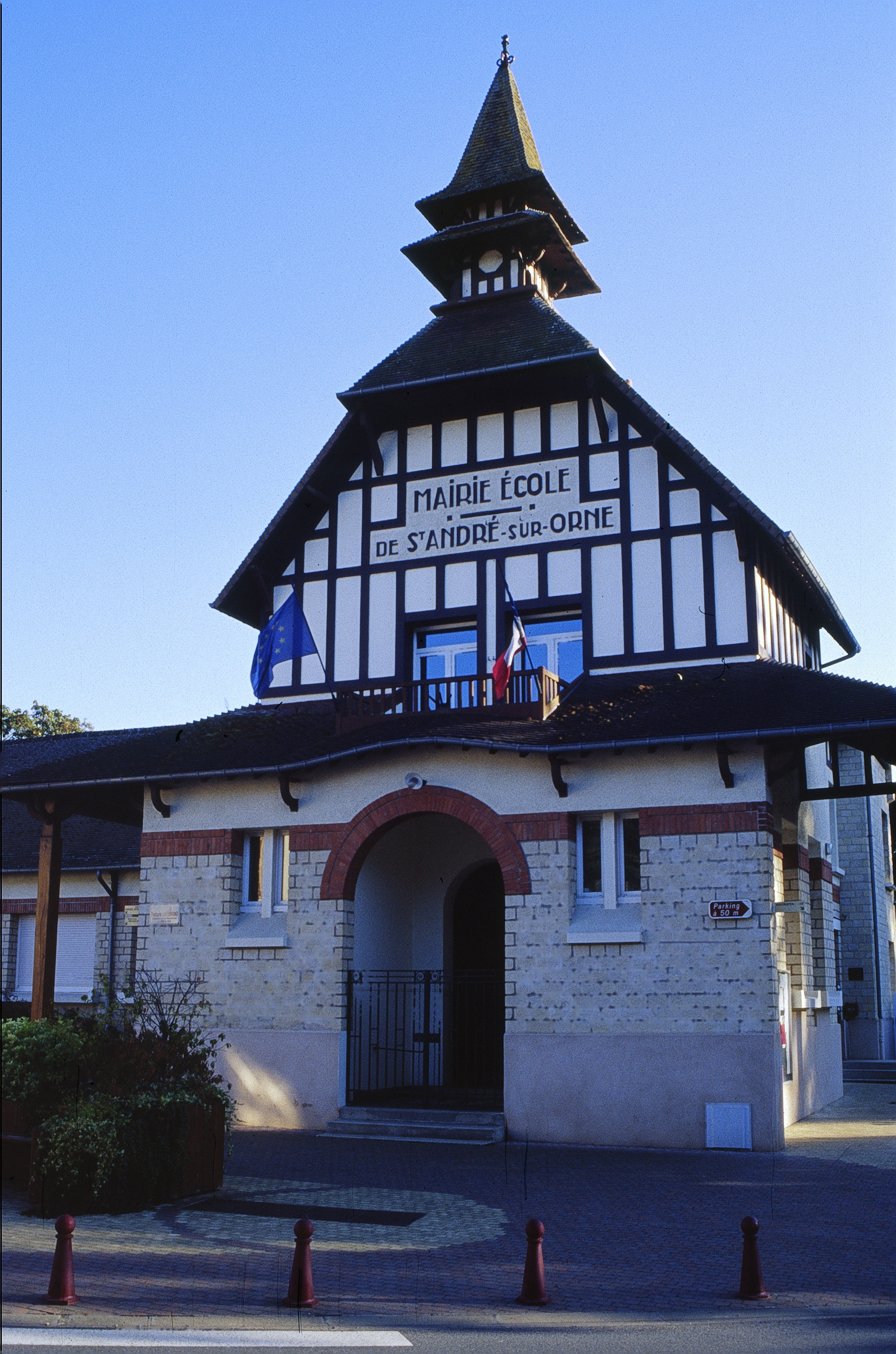 Town hall of Saint André-sur-Orne